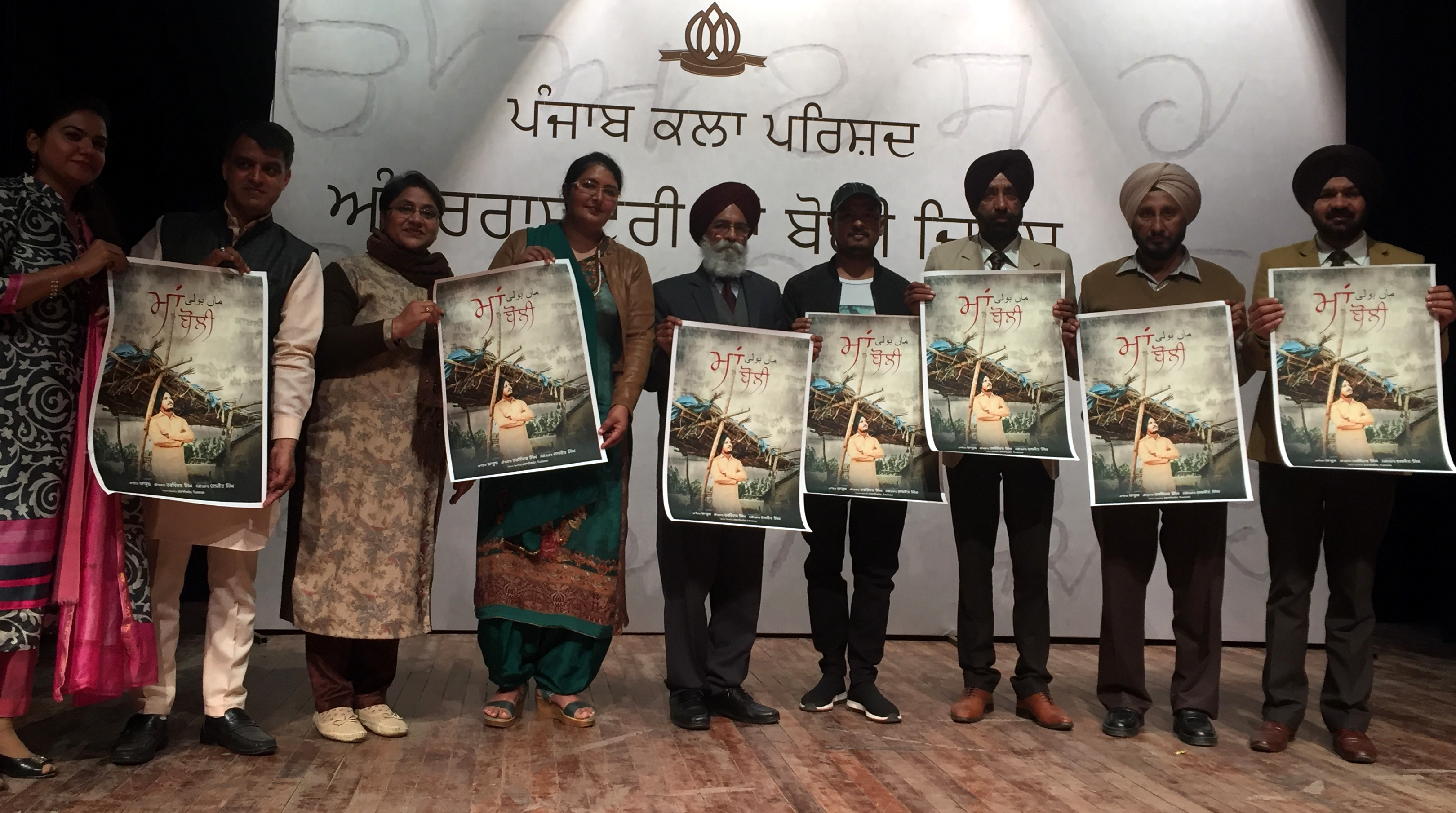 Maa Boli song by Harvinder Singh released in ,Chandigarh on 21 Feb 2018